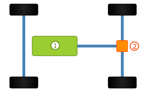 Diagram of a two-wheel drive system